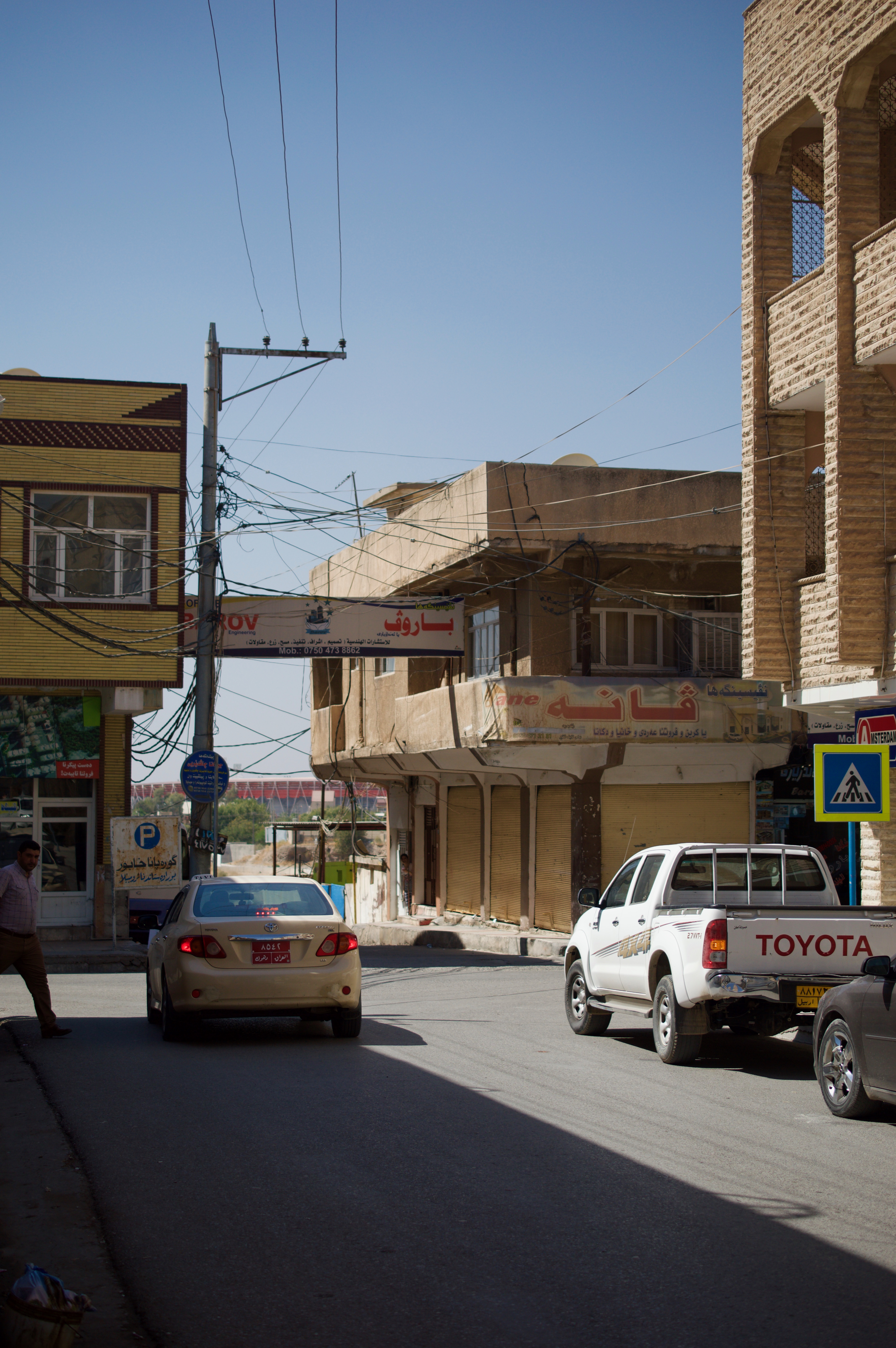 Zakho